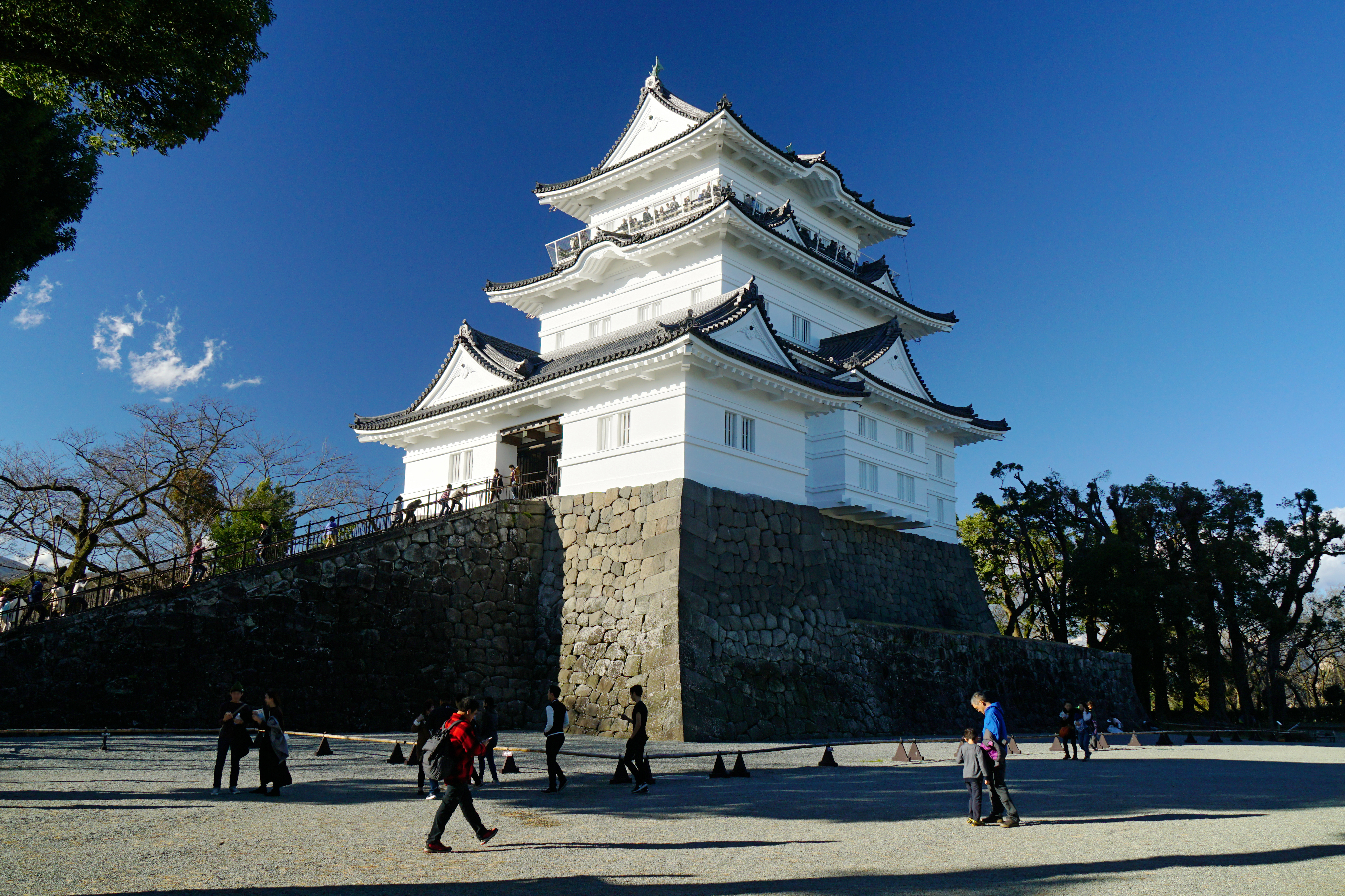 Odawara Castle Keep Tower in Odawara, Kanagawa prefecture, Japan